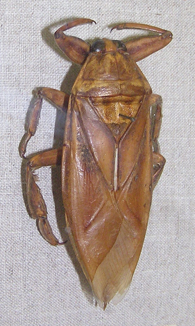 Lethocerus indicus